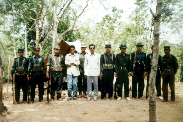 Guerrilla Leader Santu Larmars Hide-out- Duduk Chora- Khagrachiri- May 5- 1994.